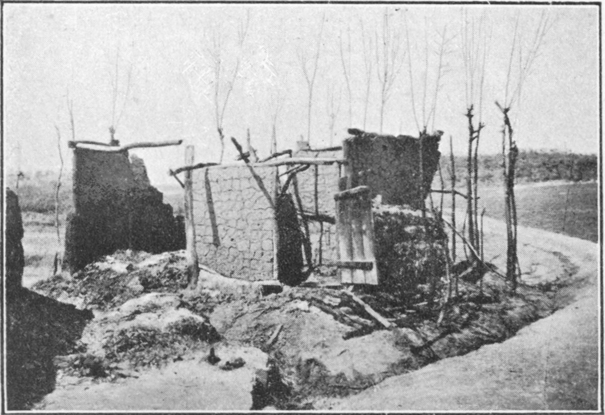 A Korean house burnt by Japanese.